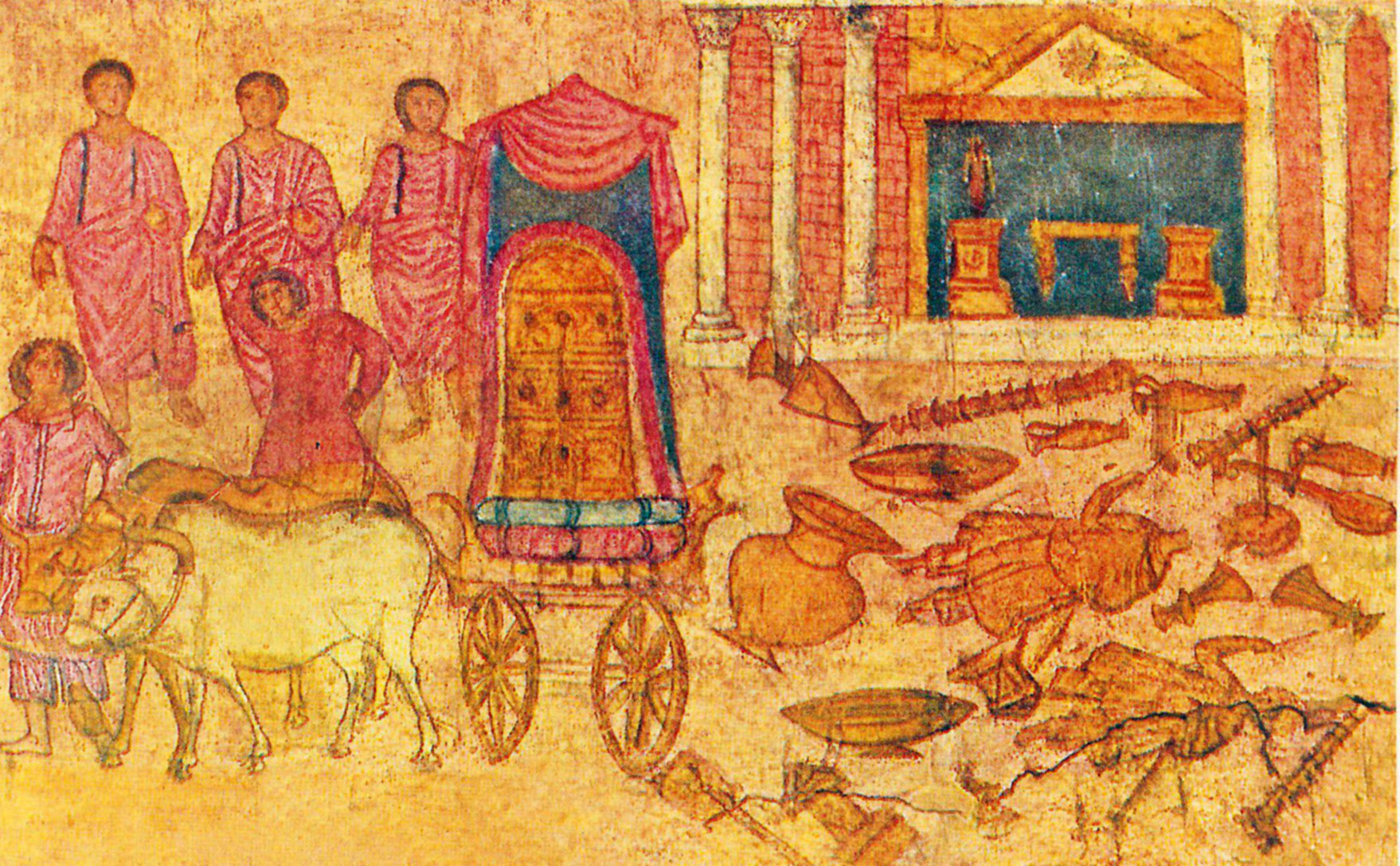 Wall painting frome the West wall, register B, in the Dura Europos synagogue : the Ark in the land of Philistines and the Temple of Dagon. Panel conveying objection against idol worship.